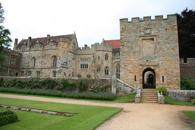 Garden Tower & South Front View to Penshurst Place from the Italian Garden